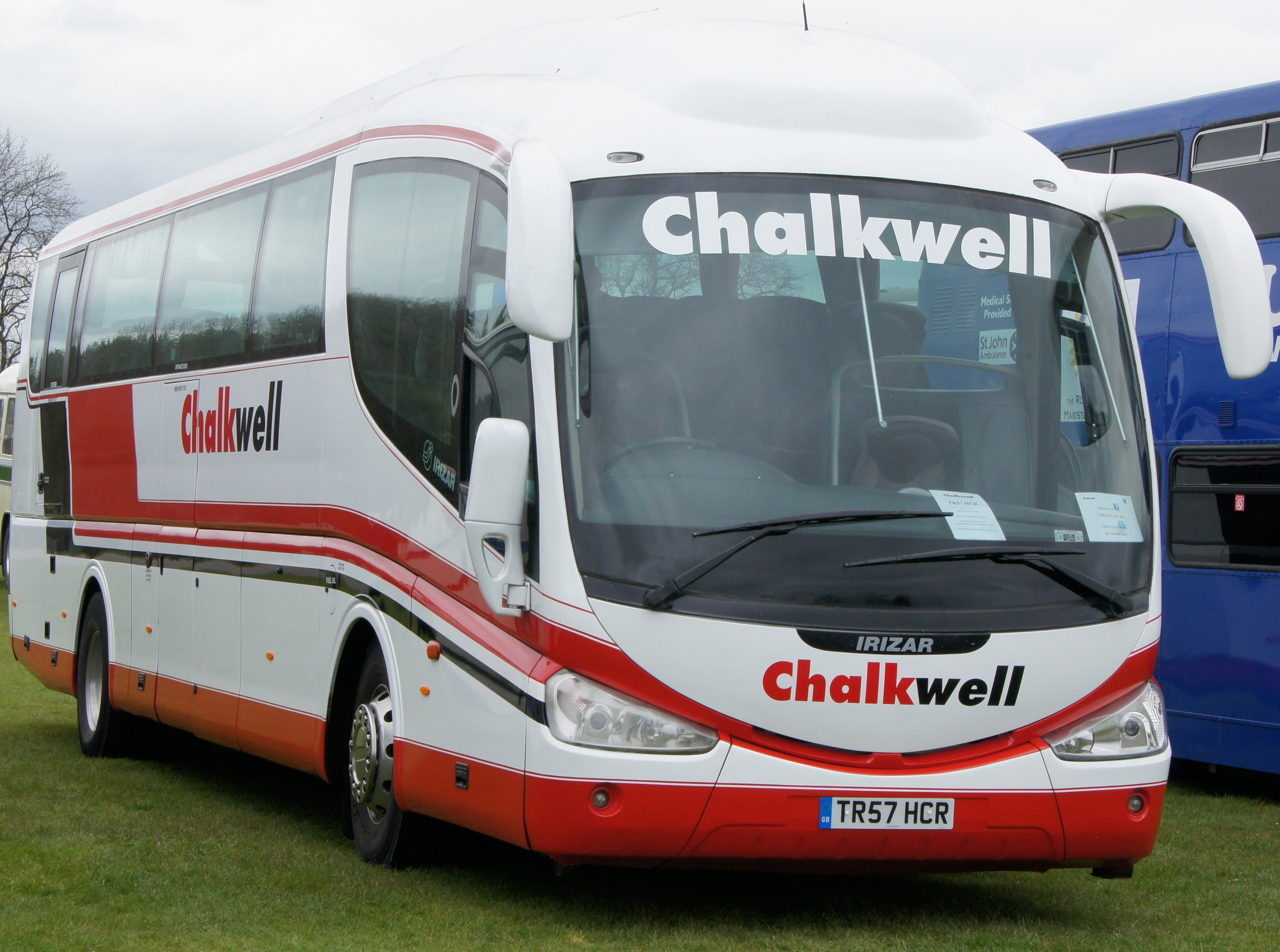 TR57HCR-1 310312 CPS